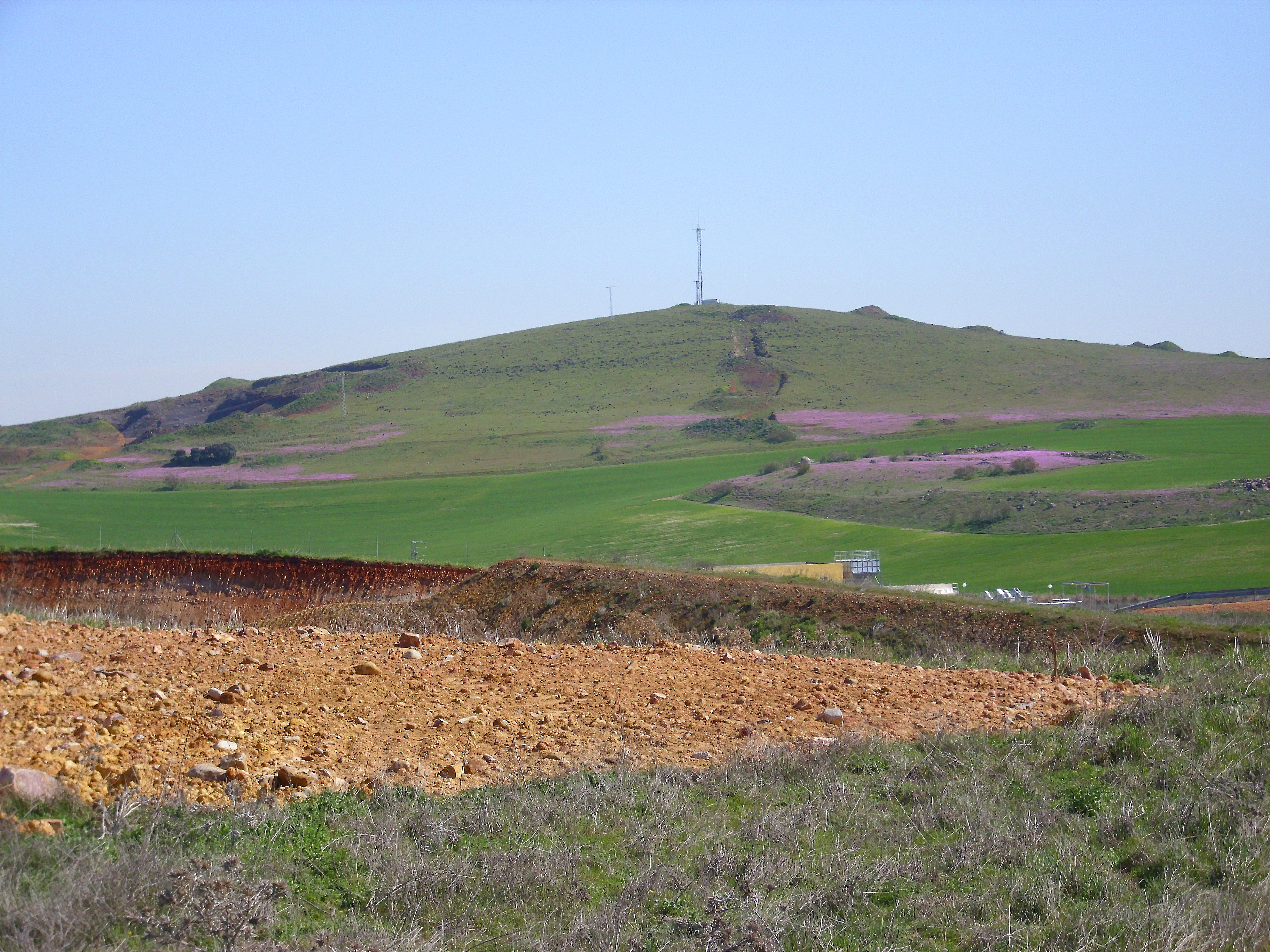 Spots by flowers of Erodium primulaceum at volcano "Cabeza Parda" slopes in Campo de Calatrava, Spain